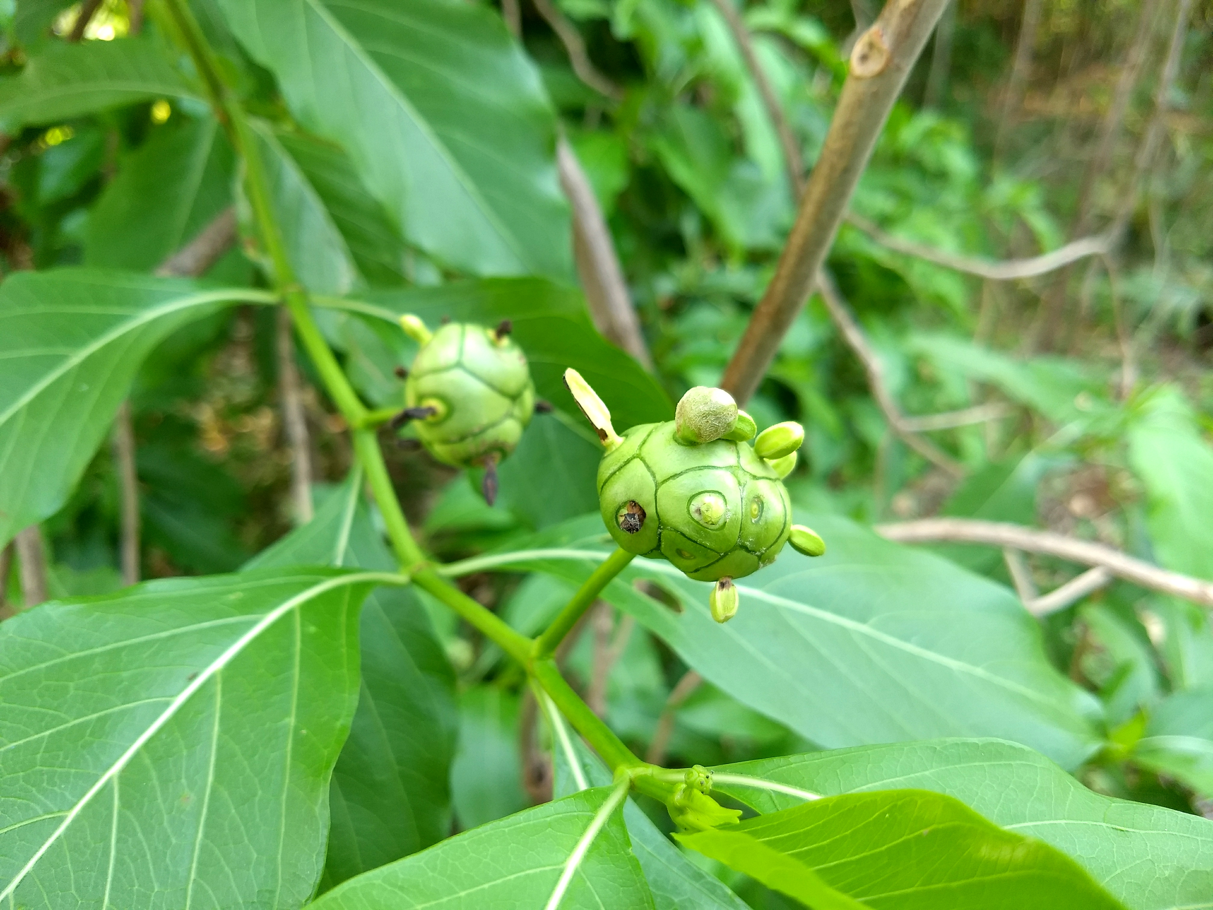 Morinda tinctoria- Indian Mulberry. From Palakkad